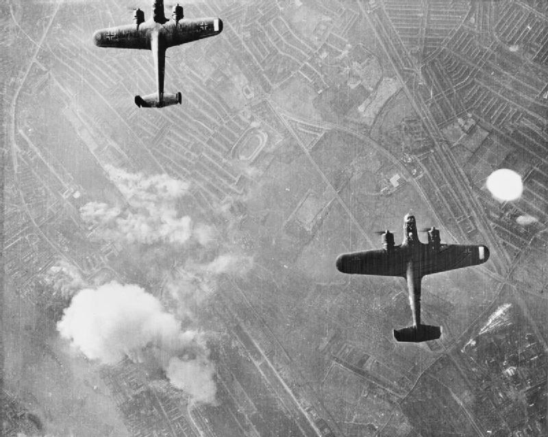 Two German Dornier Do 17Z bombers over West Ham, London (UK), flying above fires started by bombs in the neighbourhood of Beckton gas works.